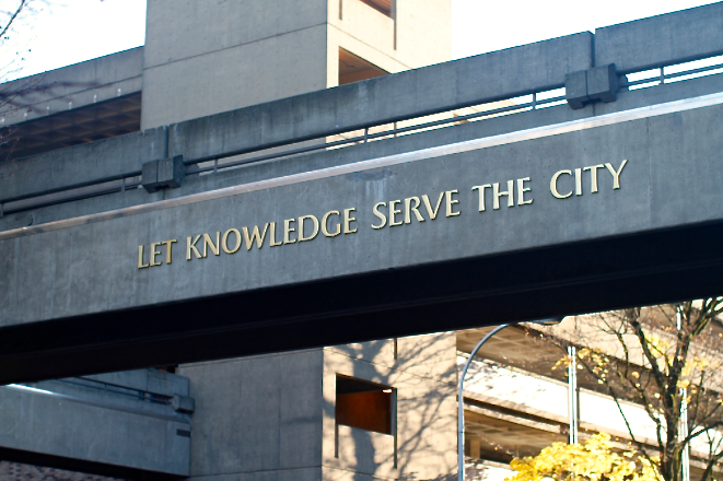 Portland State sky bridge